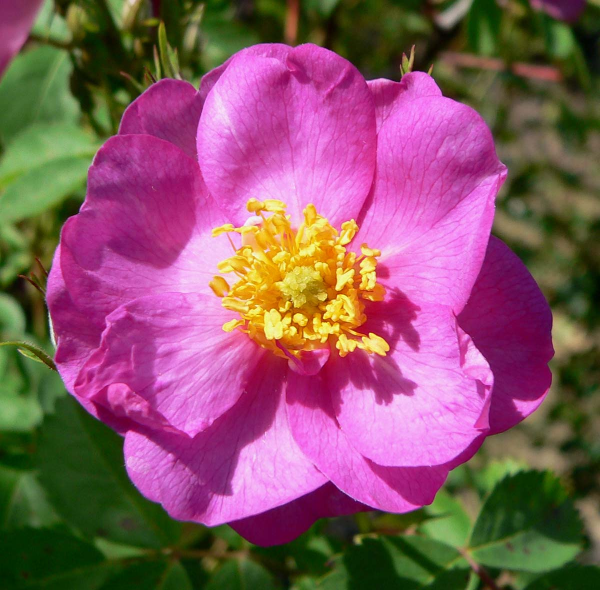 Photo of Rosa 'Theano' at the San Jose Heritage Rose Garden